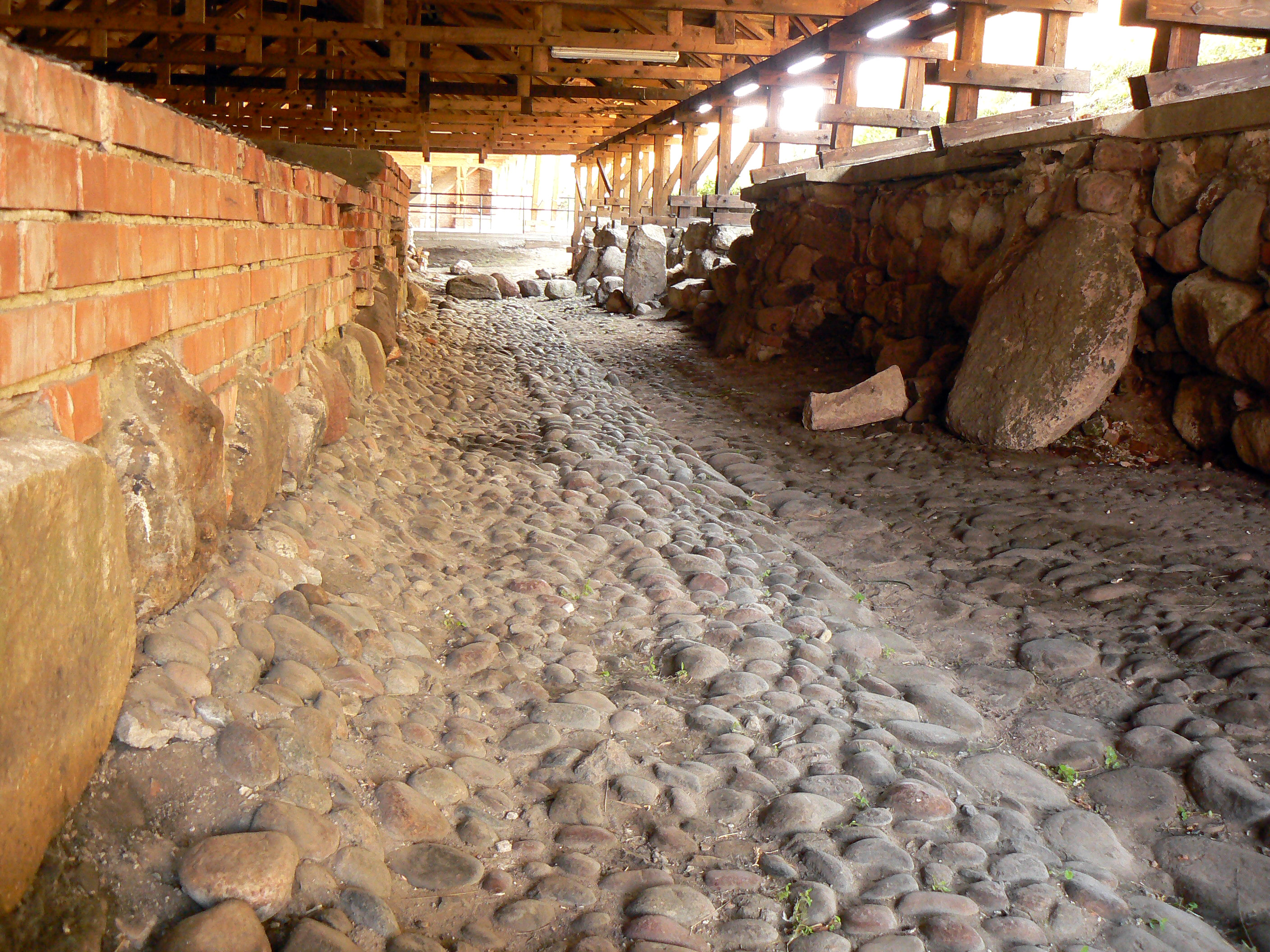 Oldest paving in Klaipeda (16th c.).